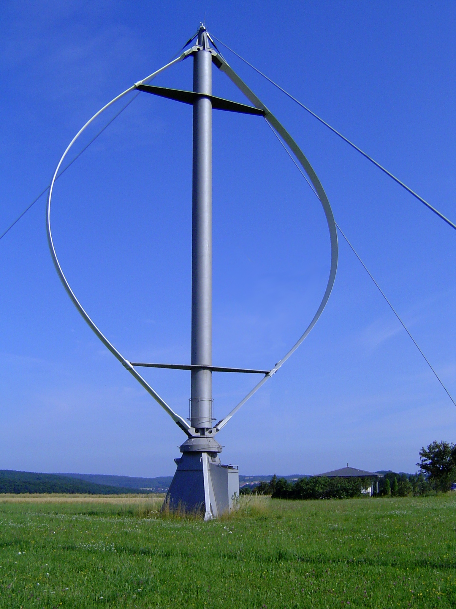 Darriues wind power generator near Heroldstatt, germany